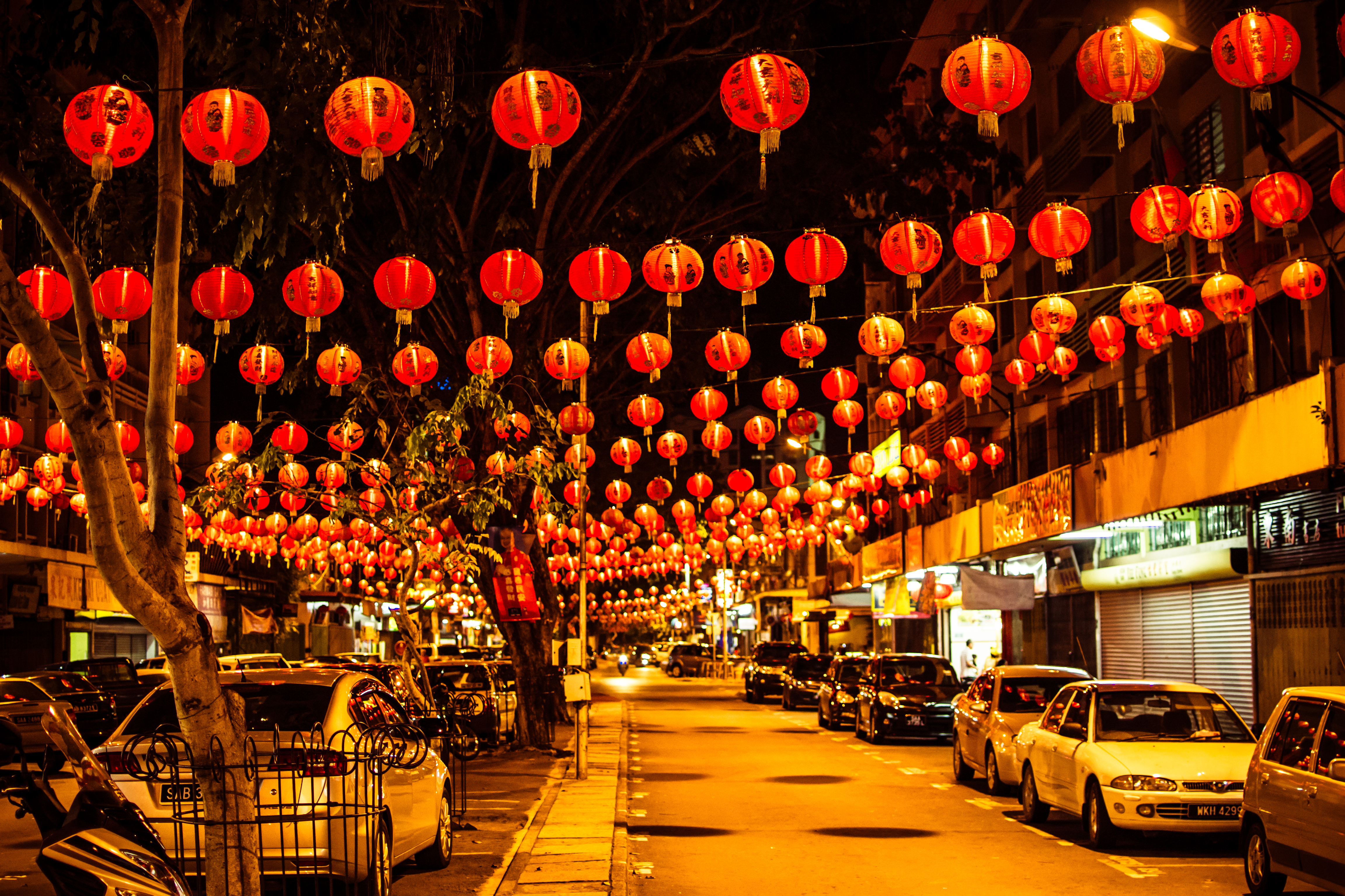 Gaya Street during the Chinese New Year.